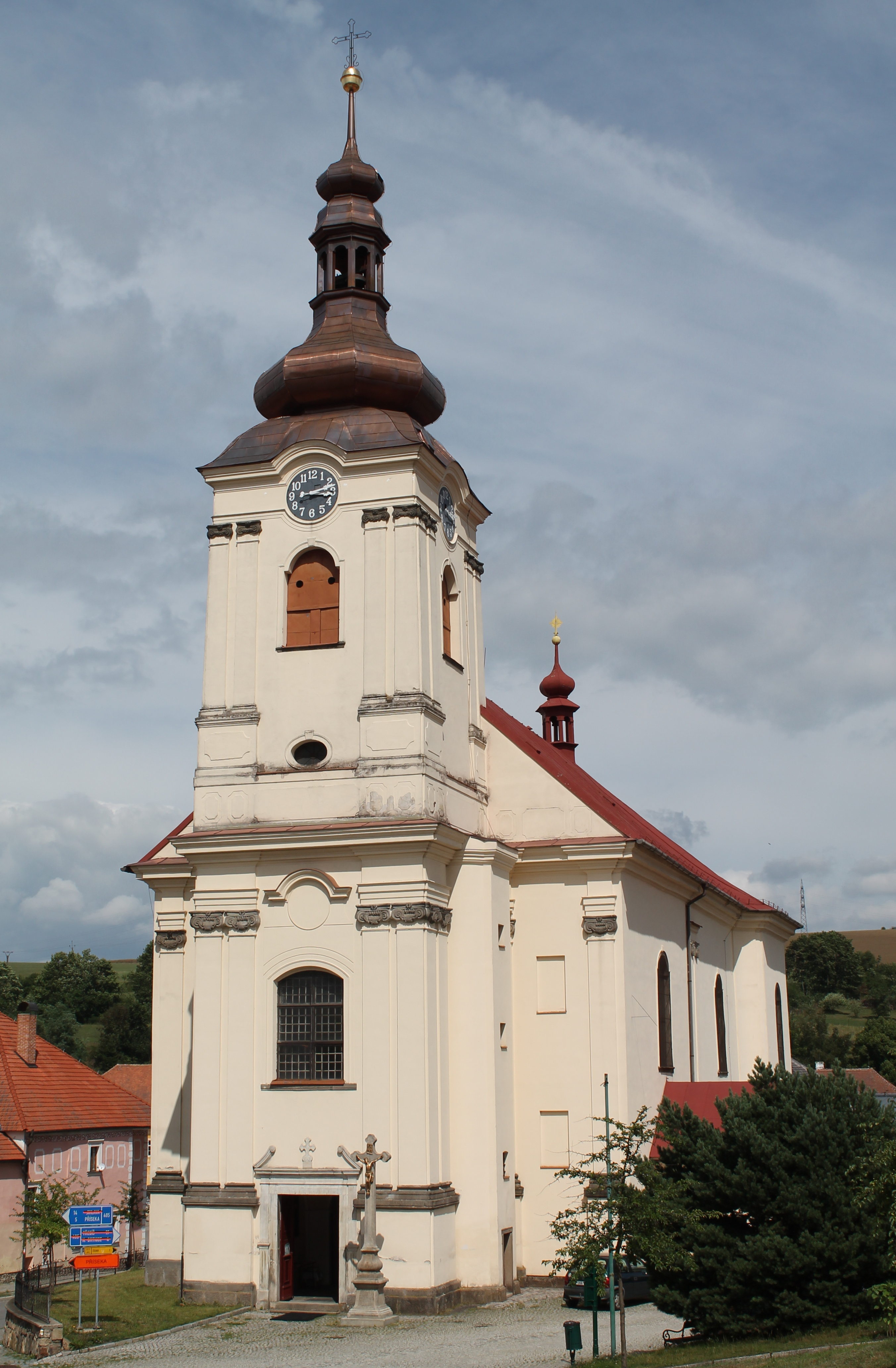 Church of Saint James the Greater, Brtnice, Jihlava District, Czech Republic